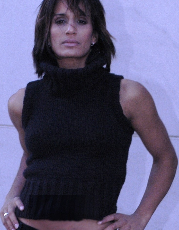 Shirin Valentine